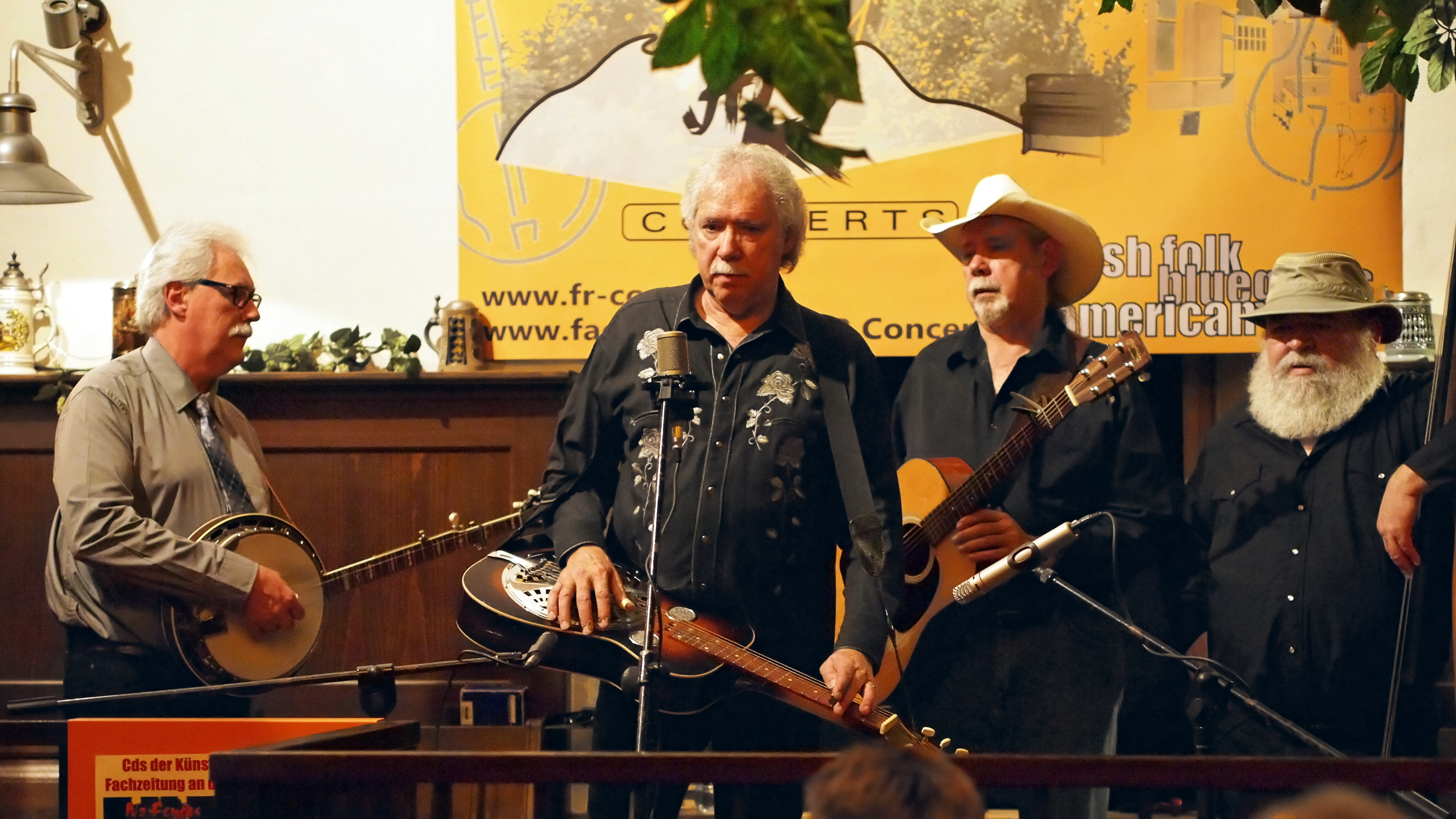 Canadian Bluegrass-Band The Good Brothers. Left to right: Larry (5-string banjo/guitar), Bruce (autoharp/resonator guitar) and Brian (guitar) Good, Lou Moore helping out on the double bass